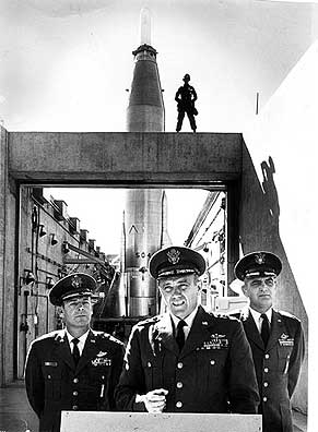 Air Force officers speaking at the 1961 commissioning of the missile base near Holton, KS. This base is now the site of Jackson Heights High School. The structure that held the missile is now the garage for the school's buses.